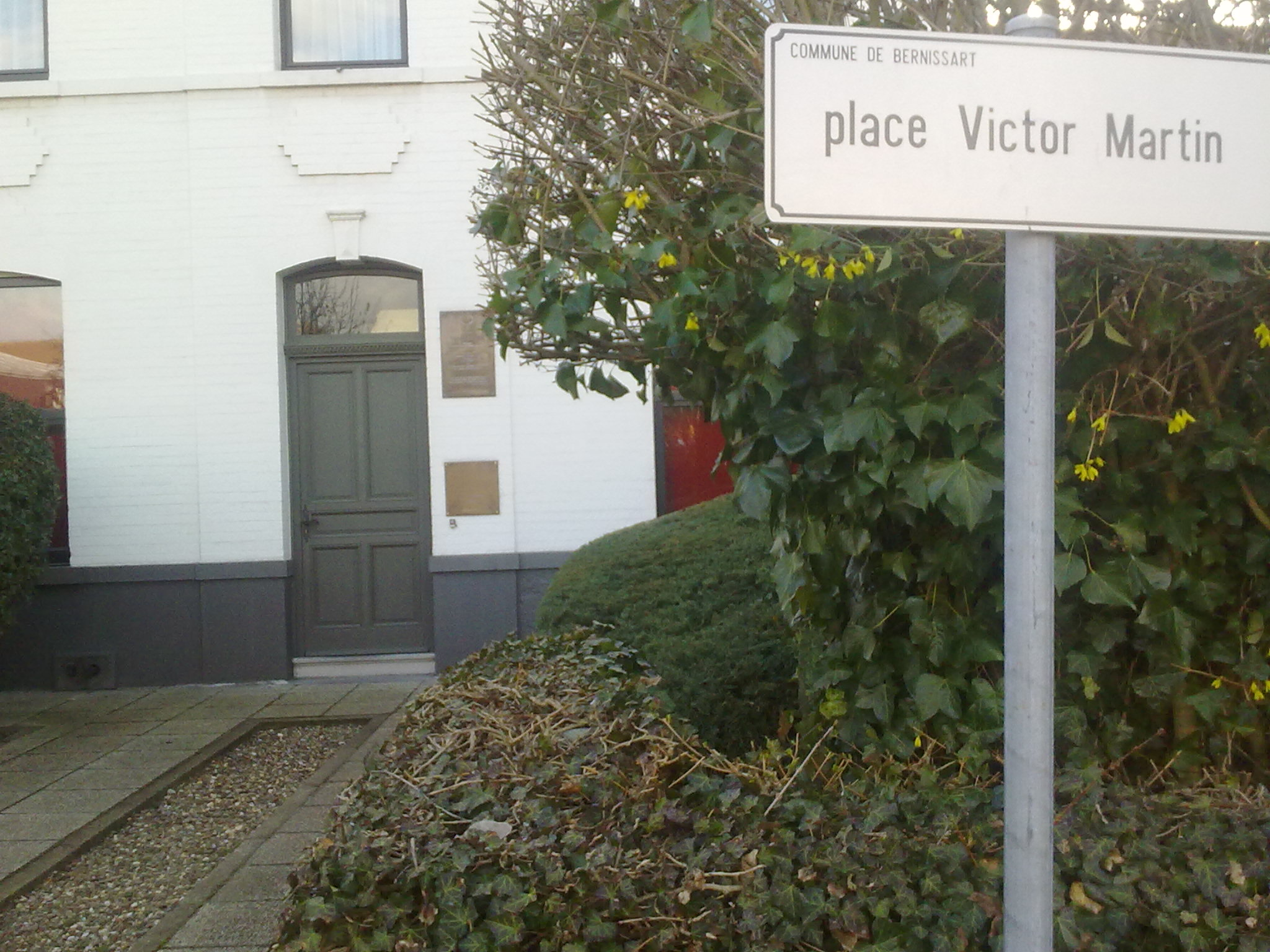 house where Victor martin used to live in Blaton, section of Bernissart. With view on the memorial plaque afixed on the facade.